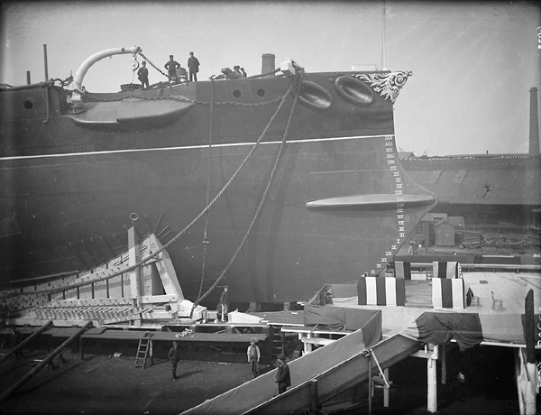 HMS 'Sans Pareil' on the stocks at Thames Ironworks Reproduction ID: G05568 Maker: Unknown Date: 9 May 1887